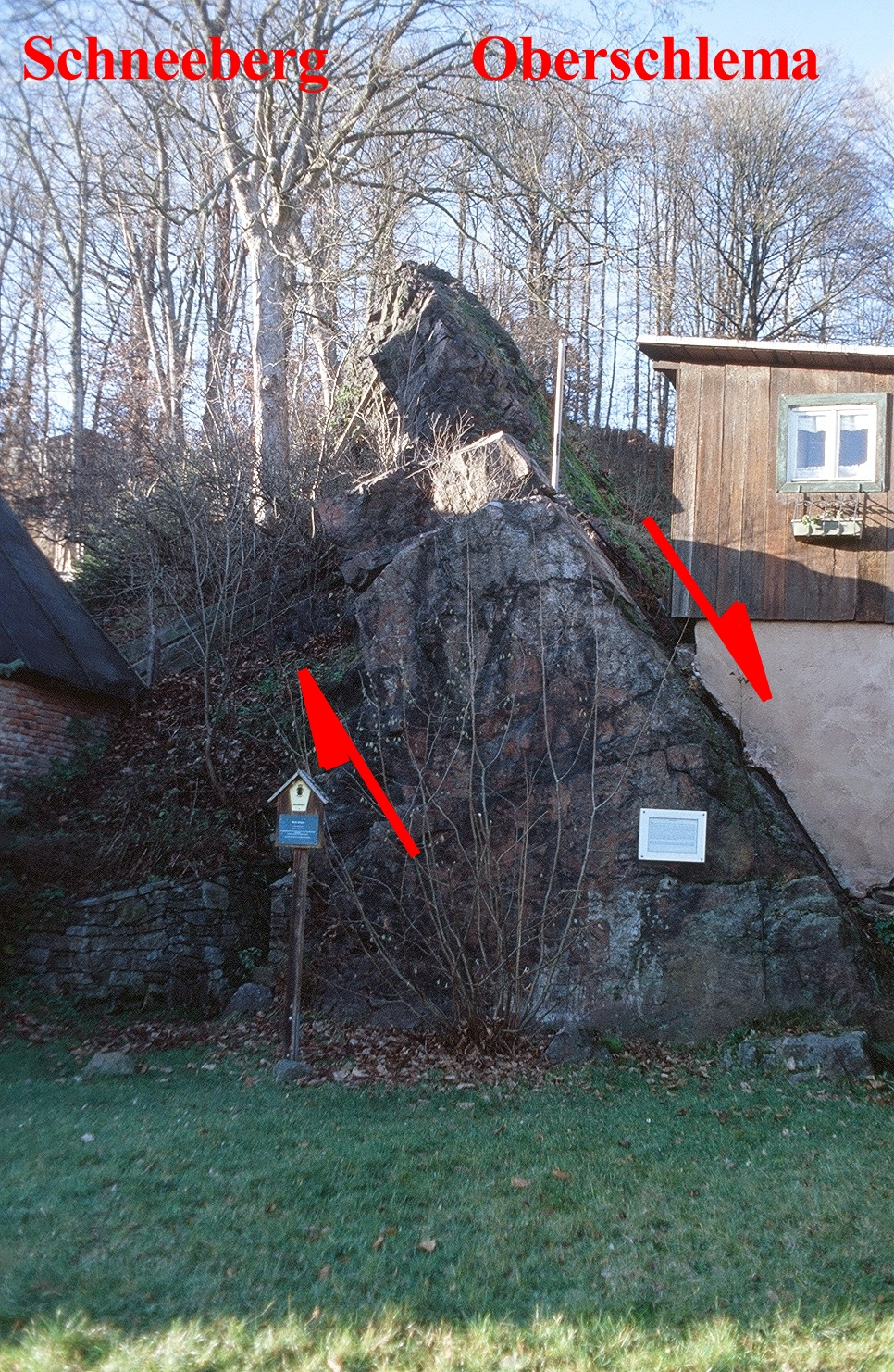 "Roter Kamm" fault in Bad Schlema, Germany: The quartz-hematite mineralised Roter Kamm fault is the central element of the Gera-Jachymov fault zone hosting the largest uranium deposits of central Europe. The vertical displacement in Bad Schlema is 400m with Variscan granites on the left and phyllites on the right. The fault is the boundary between the Schneeberg Ag-Co-Ni-U and Schlema-Alberoda U deposits.